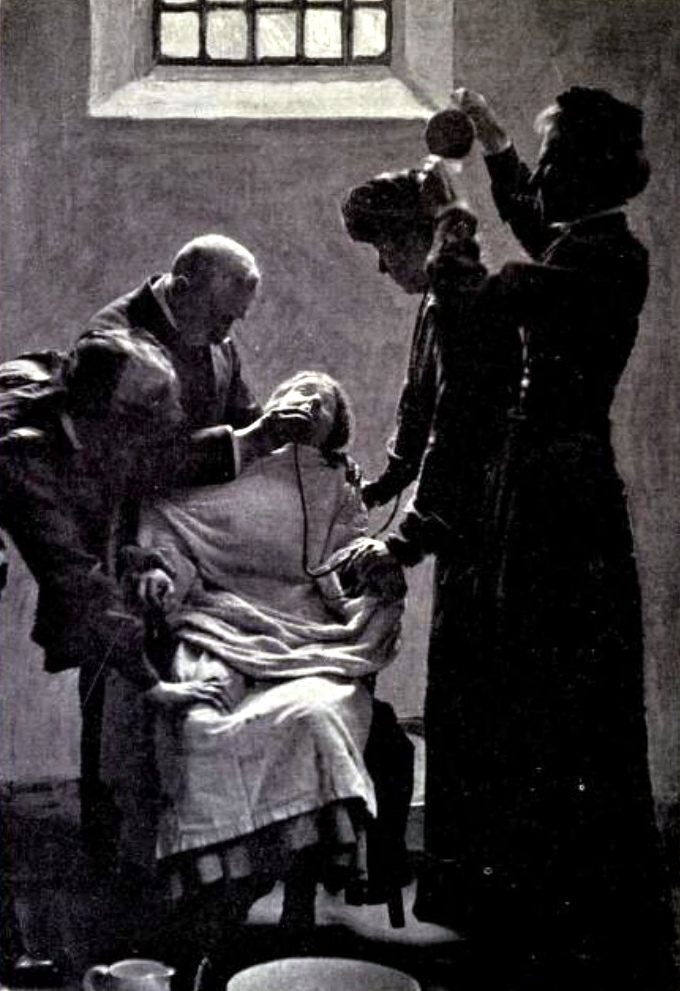 A suffragette on hunger strike in the UK being force-fed with a nasal tube